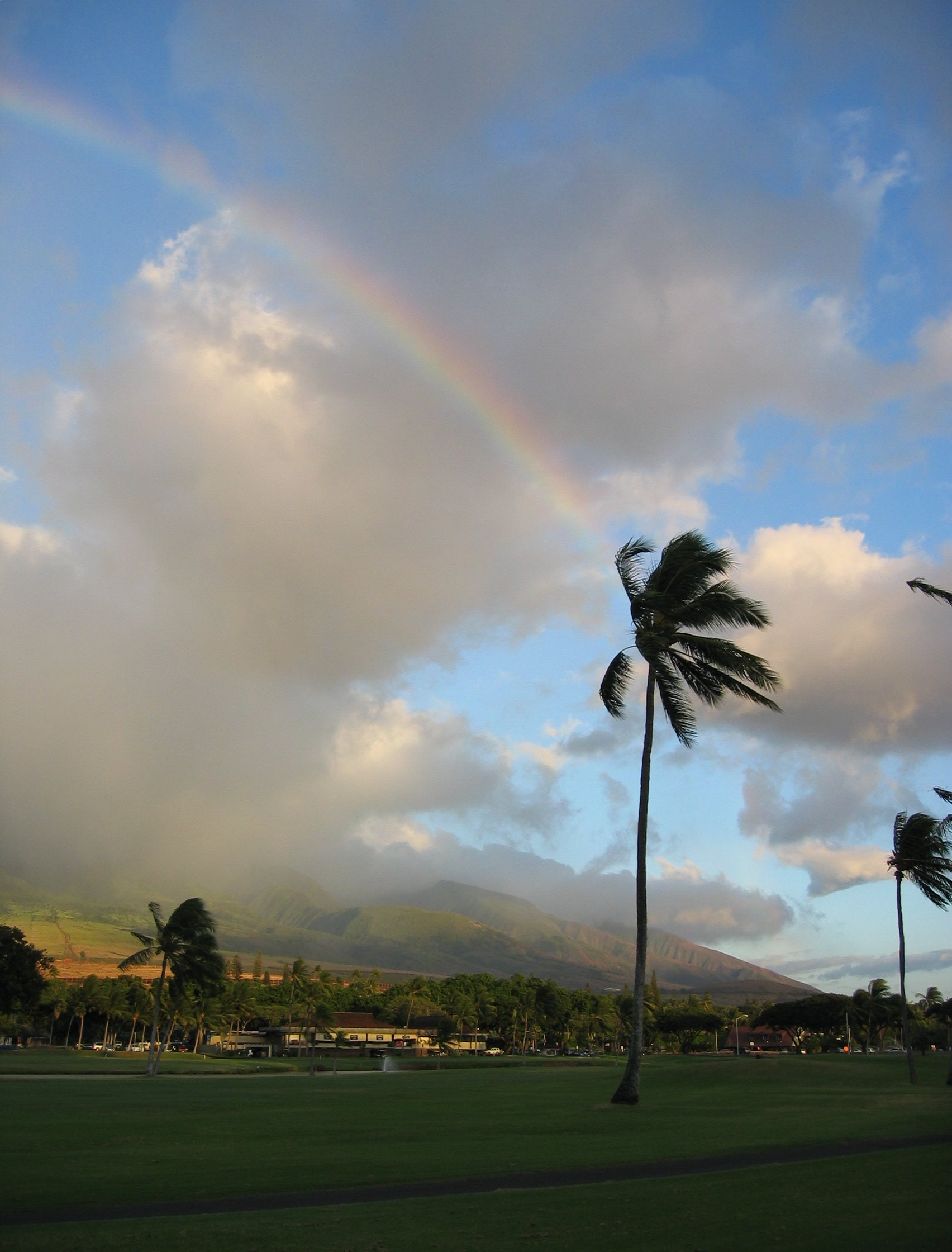 I created this image and I release this image into the public domain.Remember 05:32, 14 August 2006 (UTC)